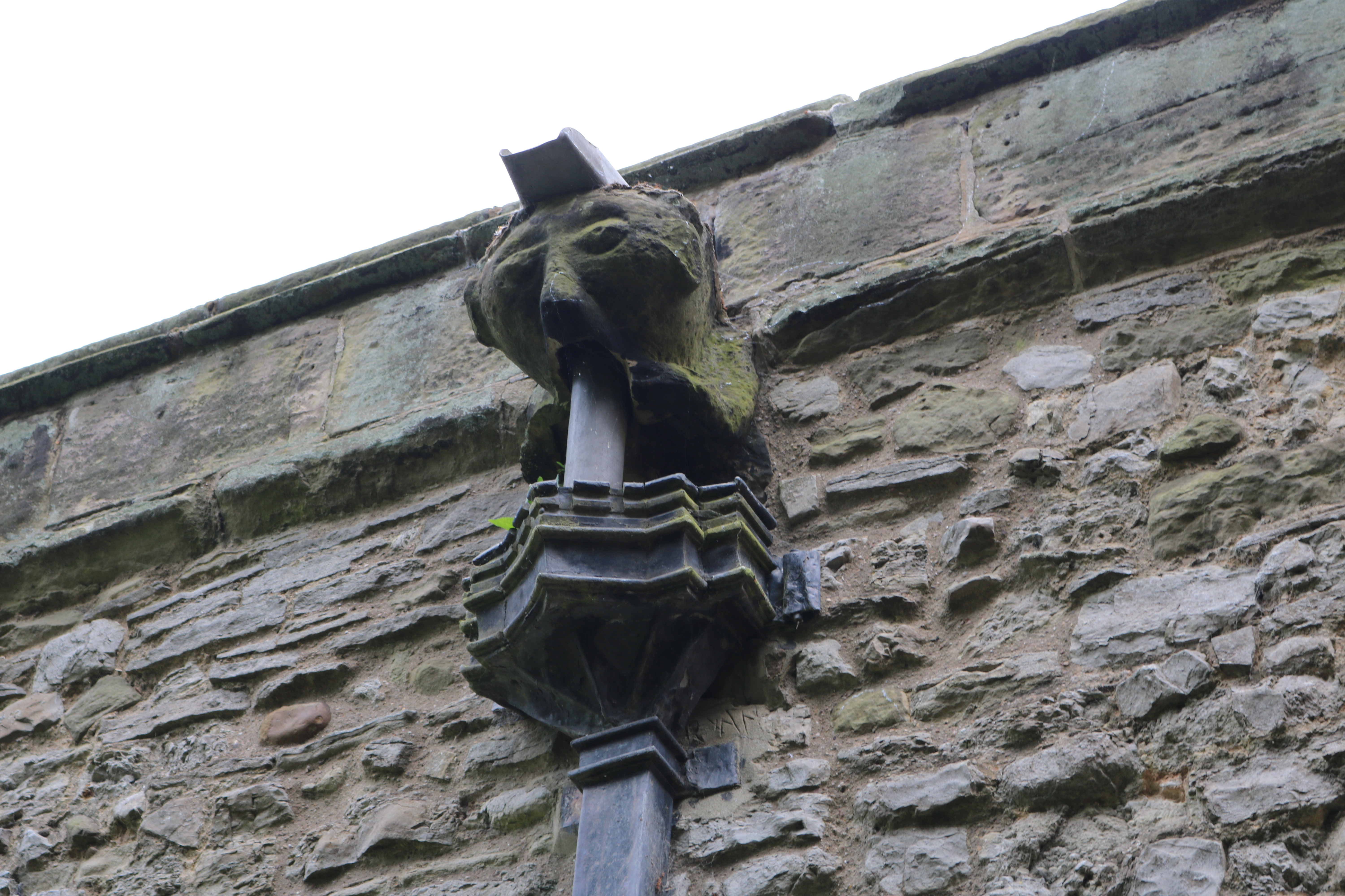 The gargoyle on the central part of the north-chancel wall at St James' Church in Normanton on Soar.